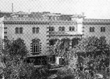 The Kyriazi Freres Factory in Egypt. The original factory was located in a purpose-built building in the European quarter of Cairo, and specifically, in the Souk El Tewfikia. This area was a mix of residential, commercial and diplomatic establishments. The red and beige building and its garden occupied 3000 square meters (32,200 square feet). The Kyriazi Freres factory was, and still is a famous landmark building. The Cairo Times write that "... the place is just as lively today as it was during Kyriazi Pasha's days".